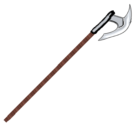 Danish axe